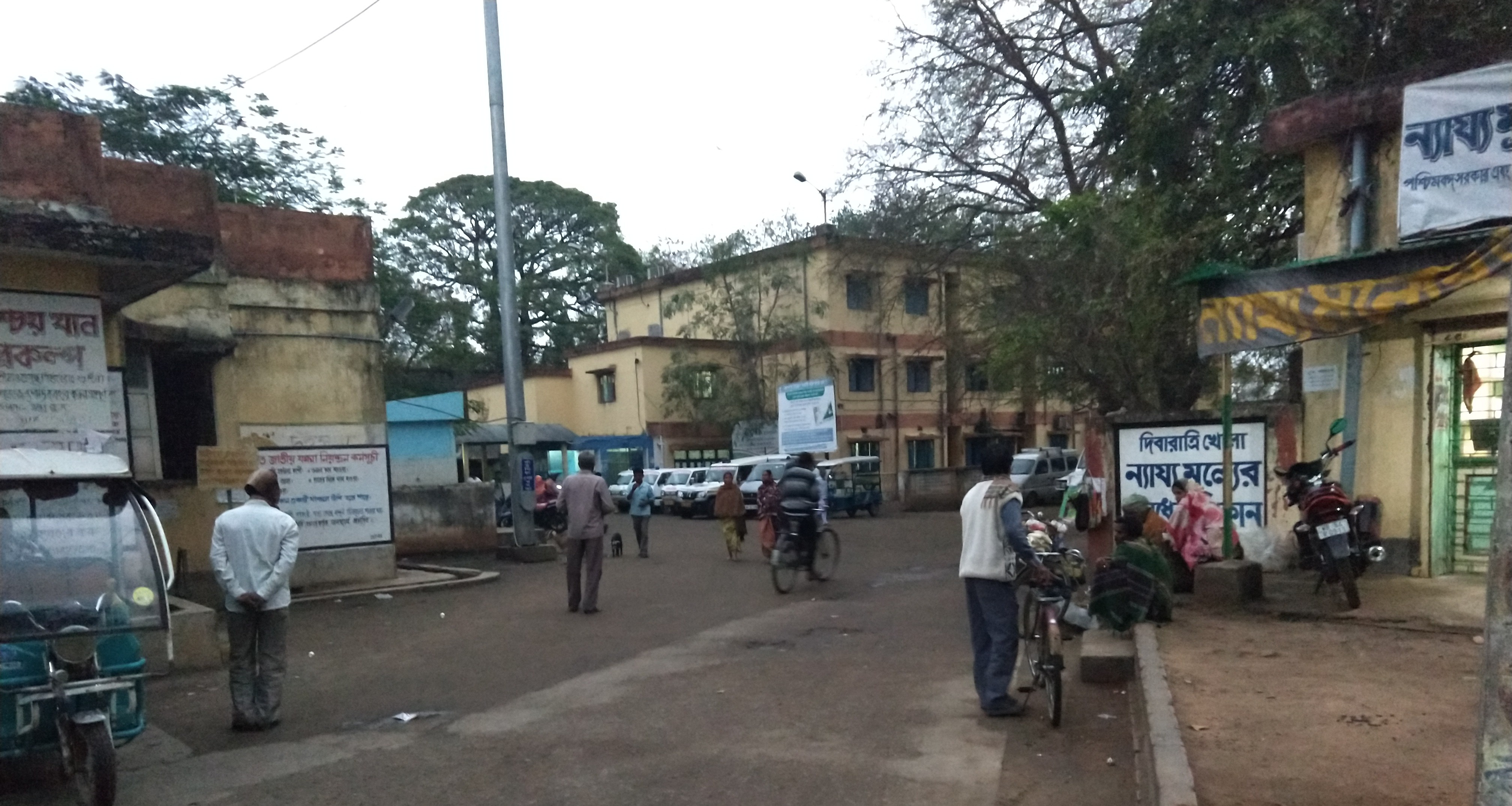 This file represents the Sainthia State General Hospital as of February 2019.